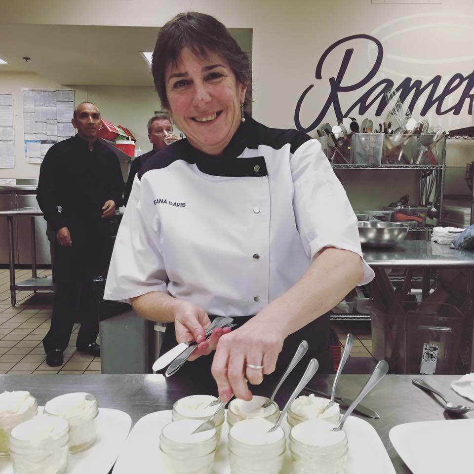 Sheana Davis in 2016